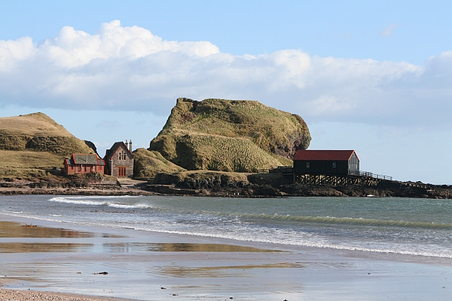 Dunaverty, near to Southend, Argyll And Bute, Great Britain. The scene of a massacre of Royalist forces in 1647.